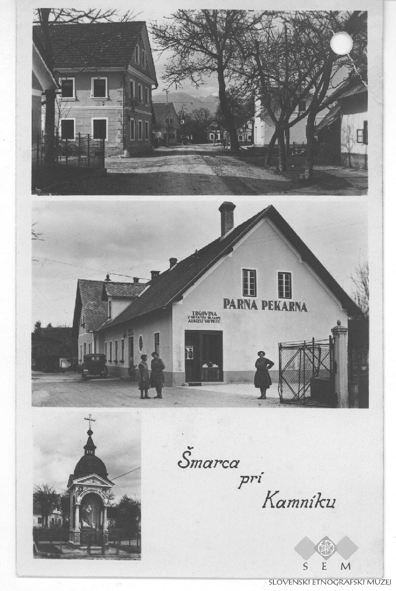 Postcard of Šmarca